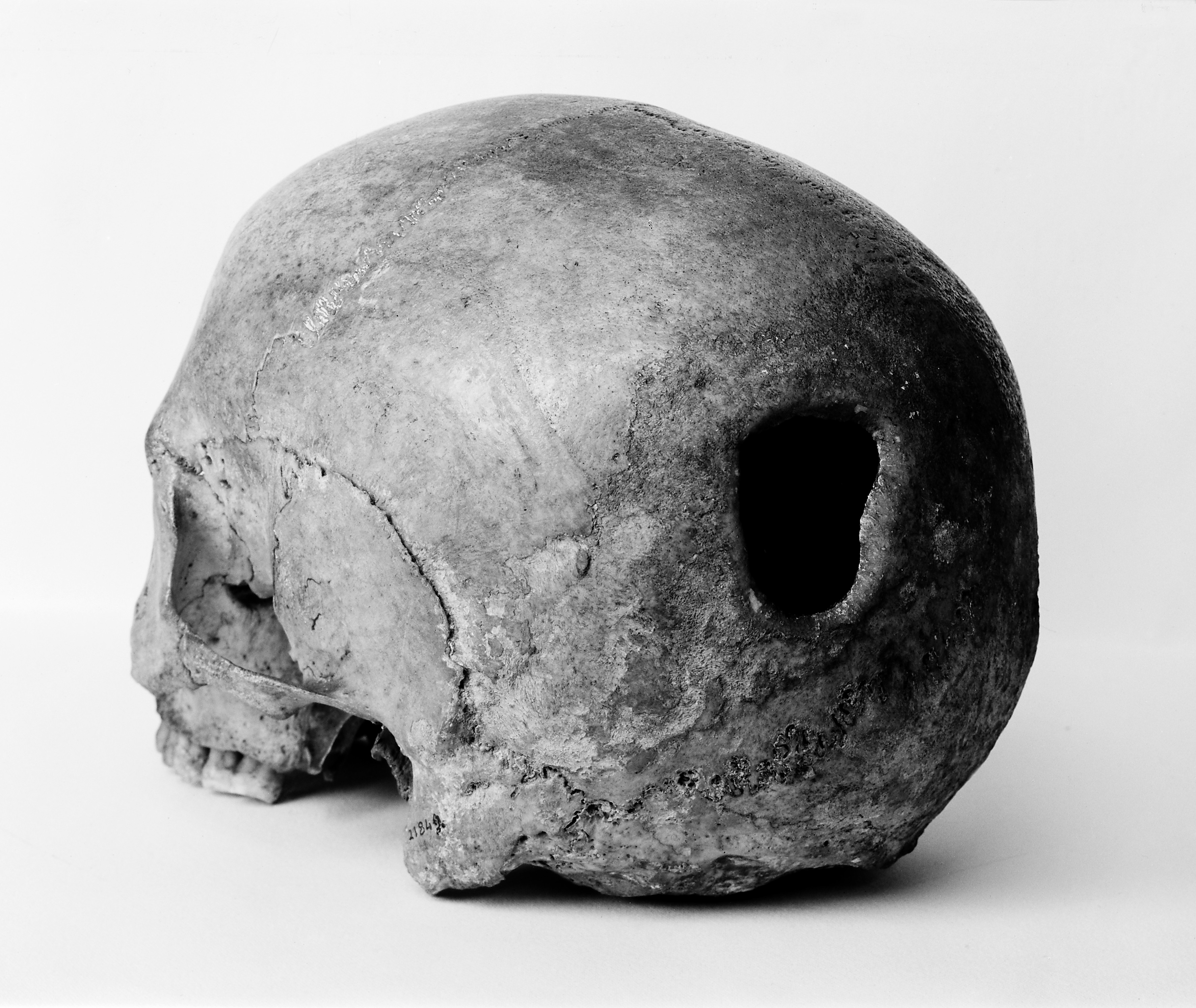 Edinburgh Skull, trepanning showing hole in back of skull Wellcome Images Keywords: trepanning; prehistoric surgery